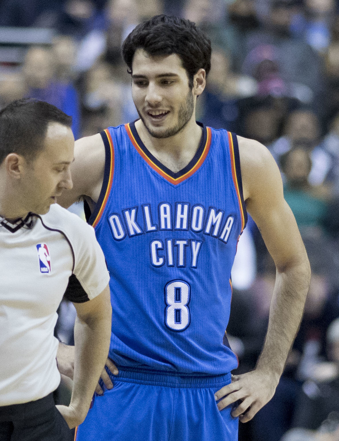 Álex Abrines during a Oklahoma City Thunder game versus the Washington Wizards.